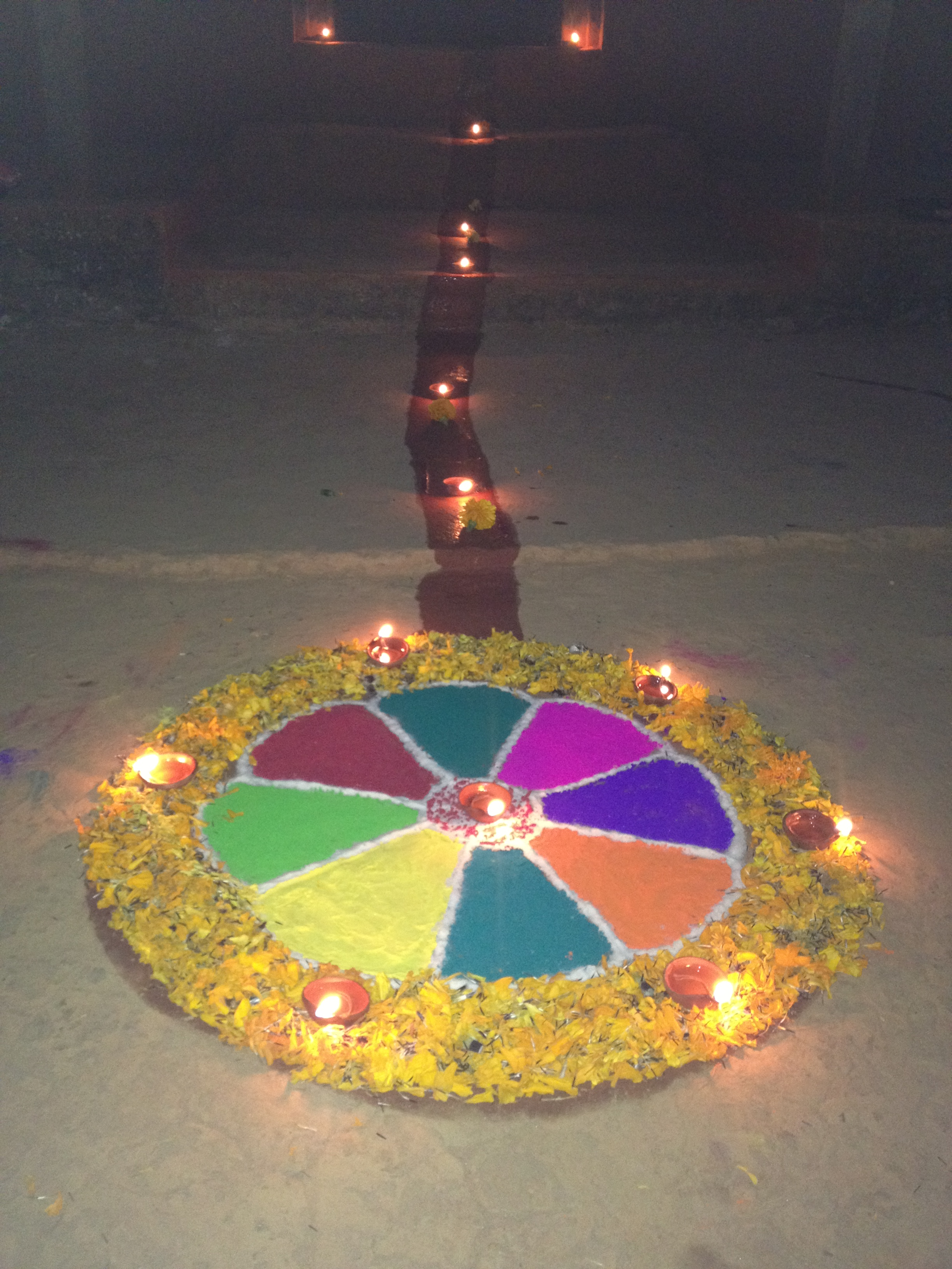 Decoration for Laxmi pooja in Nepal.